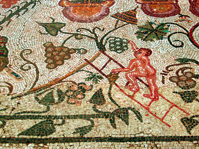 Vintage at Merida roman mosaic